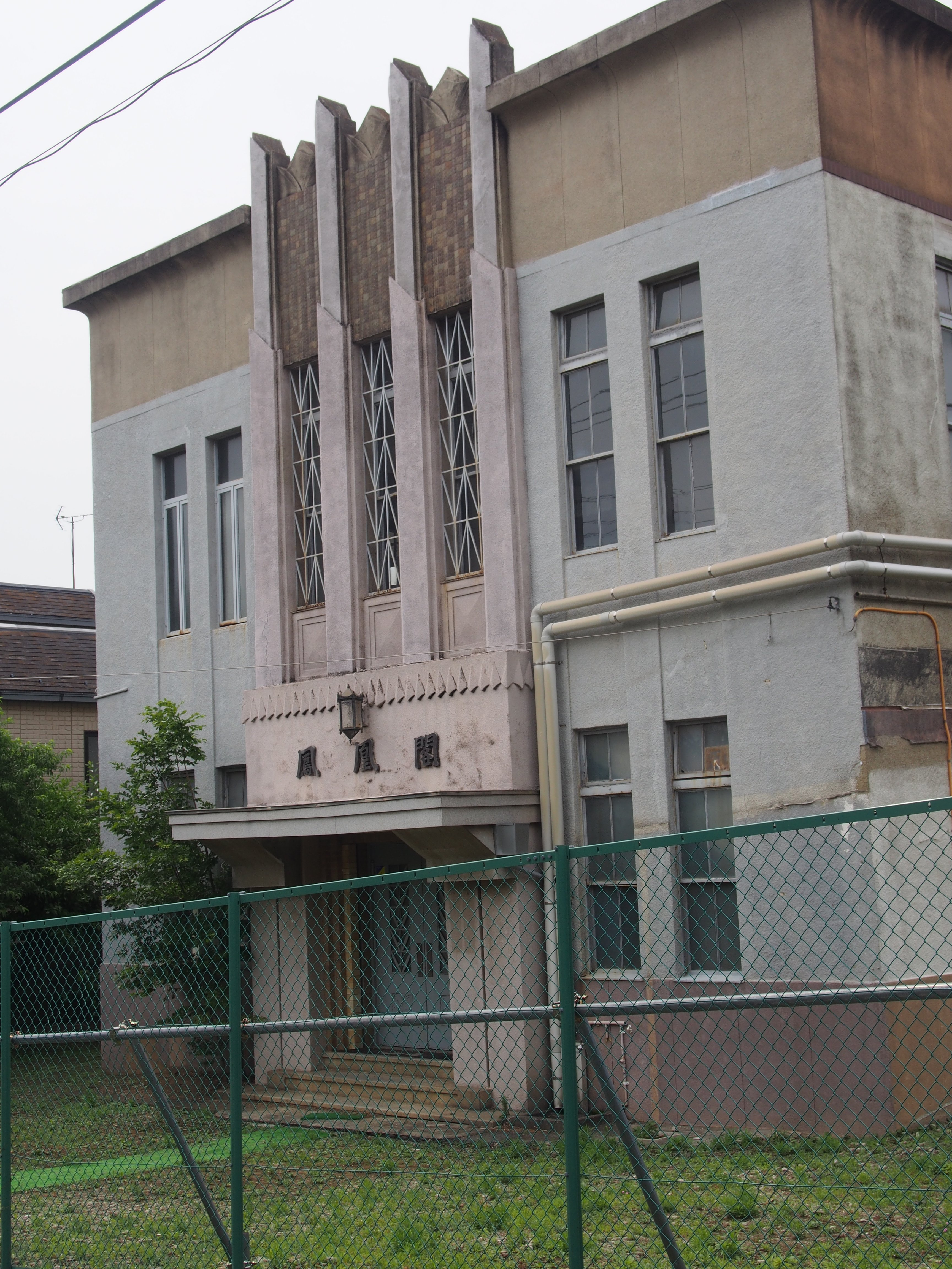 A photo of Hououkaku,Minamisenzoku,Ota-ku,Tokyo,Japan.